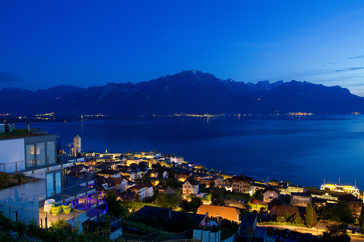 Montreux by night and the Léman Lake